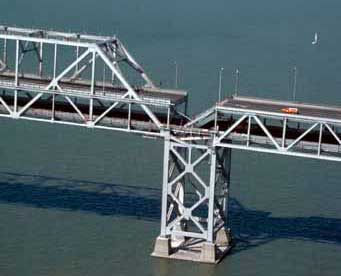 Aerial view of roadbed collapse near the interface of the cantil�T truss sections of the San Francisco-Oakland Bay Bridge. View northwestward. Cropped from original version to better fit San Francisco–Oakland Bay Bridge article.